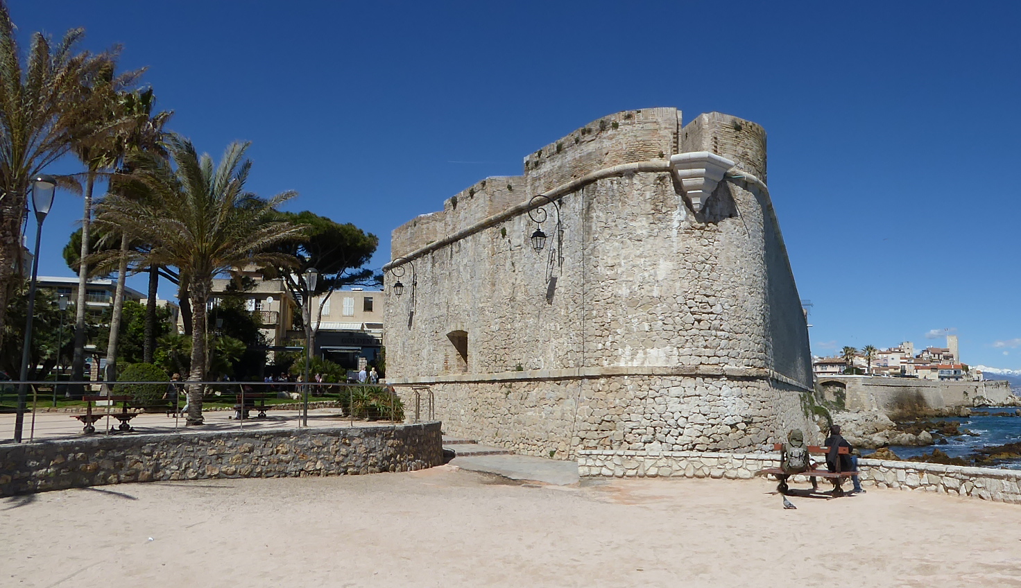 bastion